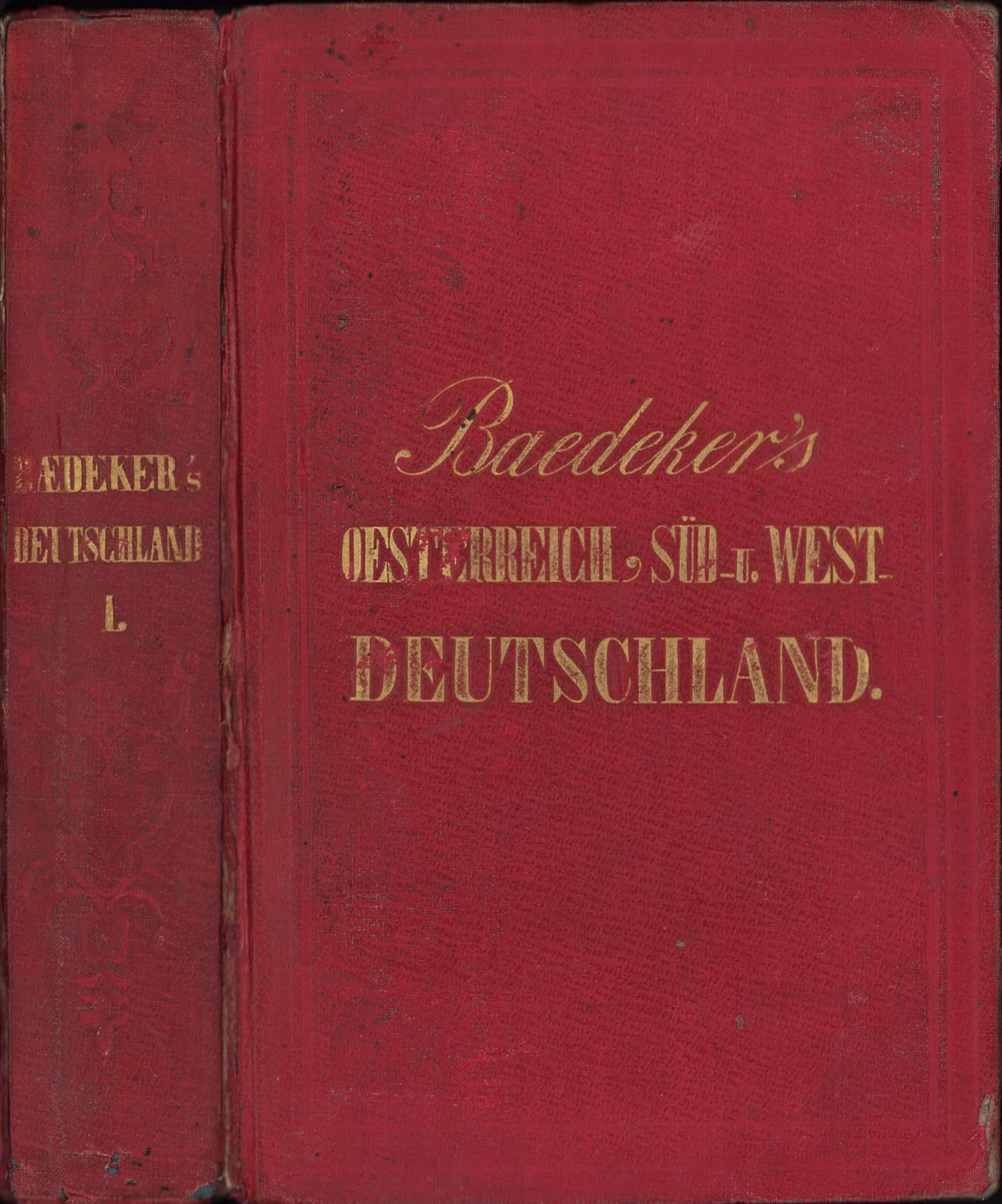 Linen frontcover of the Baedeker's Österreich, Süd- u. West-Deutschland, 4th ed. 1853